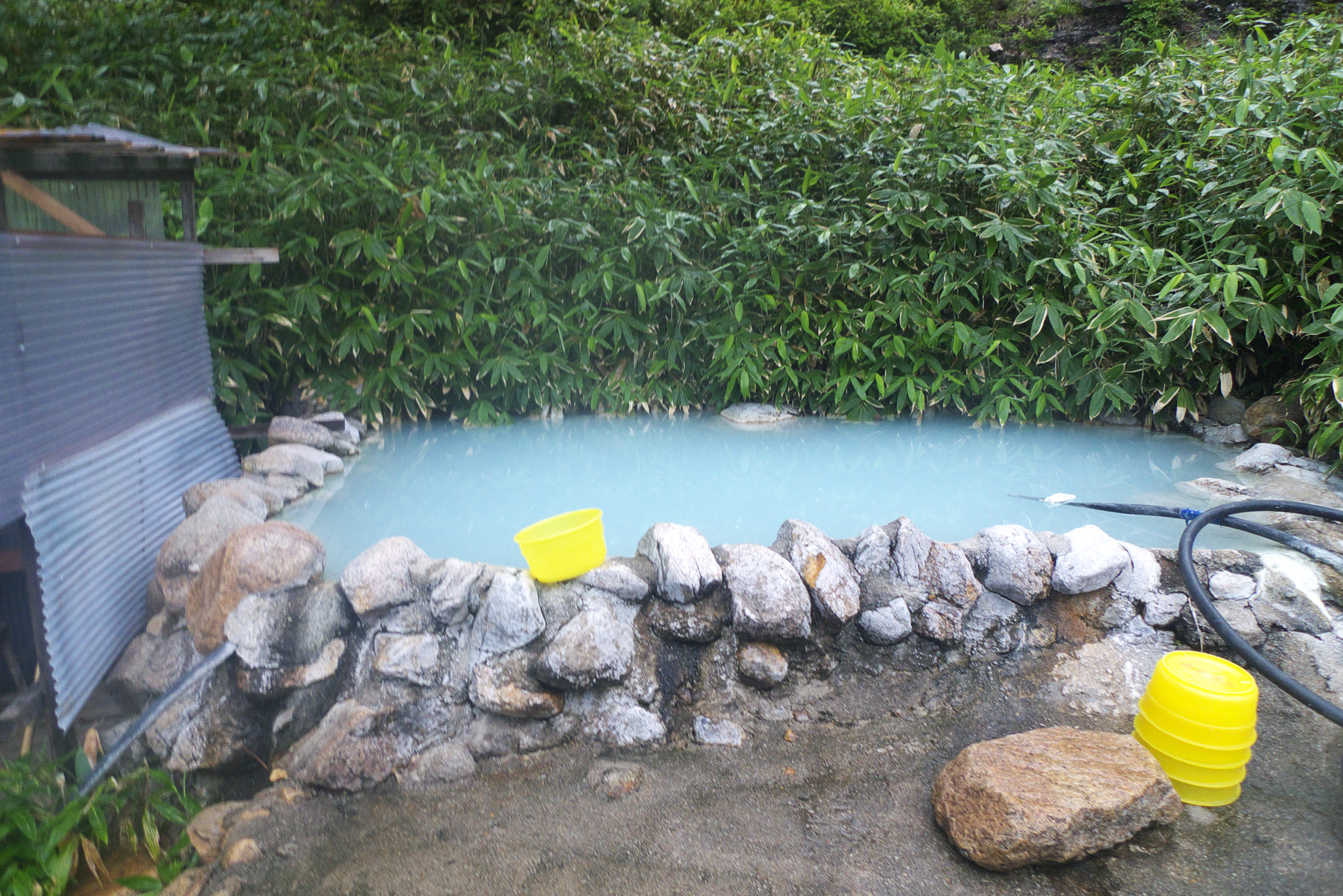 Takamagahara Hot Spring in the Hida Mountains, Japan